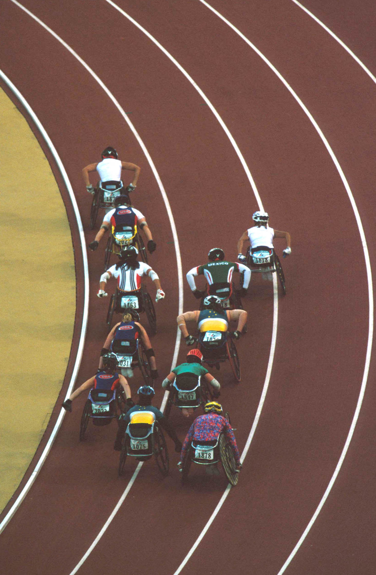 View from above of wheelchair racing event at the 2000 Sydney Paralympic Games